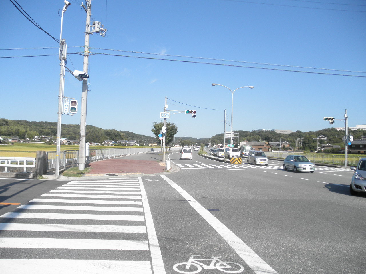 Oshibedanitown Takawa Nishi-ku Kobecity Hyogopref Hyogoprefectural road 65 Kobe Kakogawa Himeji JPG